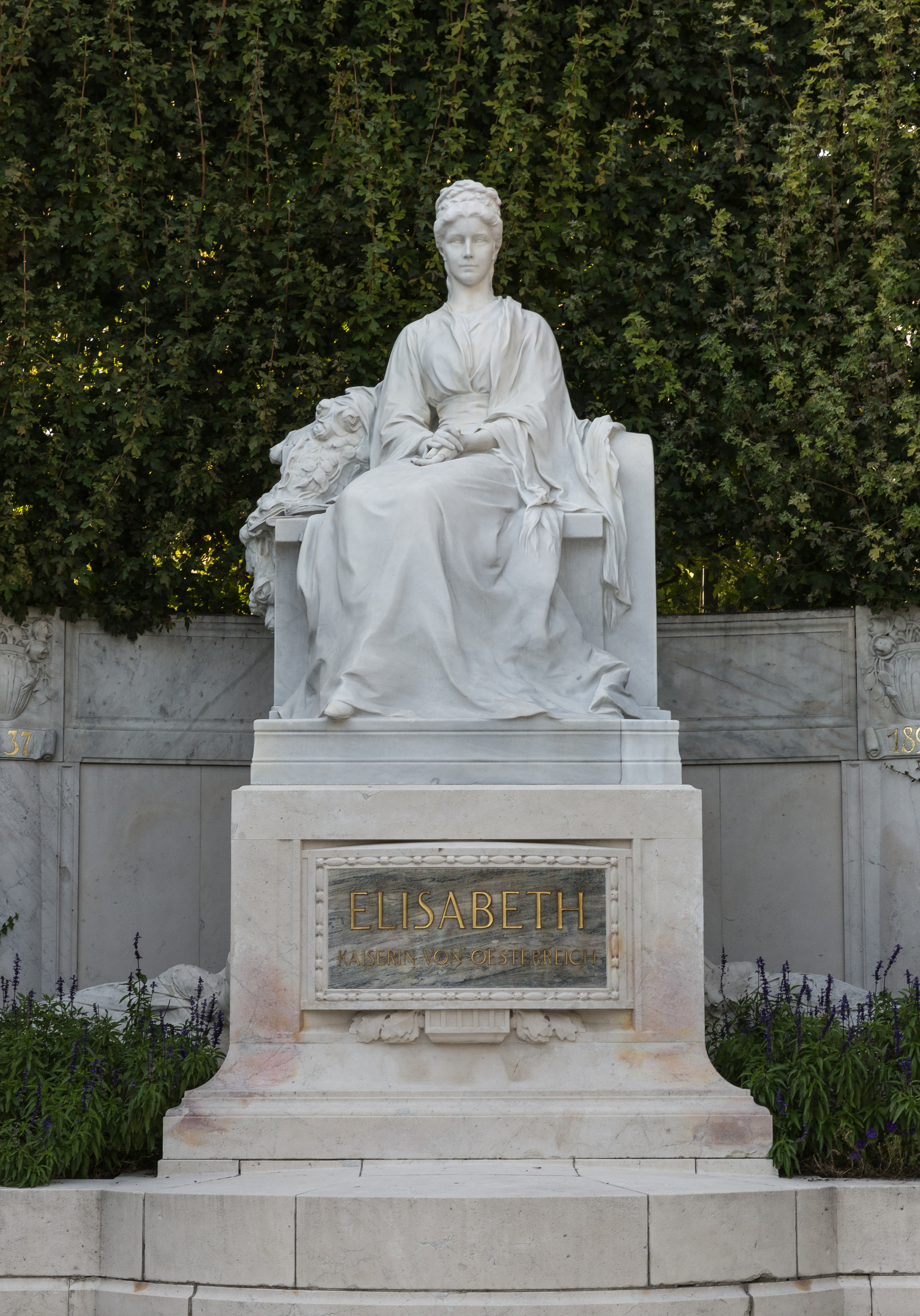 Empress Elisabeth monument (Volksgarten).